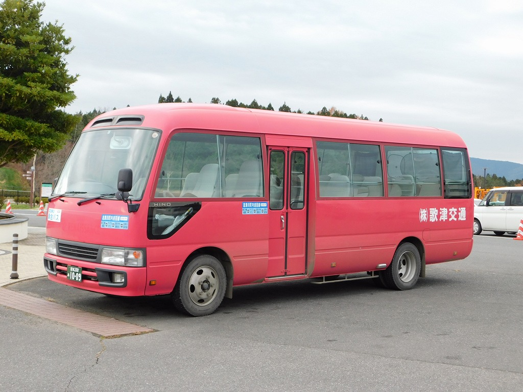 Minamisanriku town bus Hino Liesse II